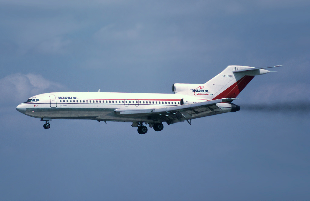 Wardair Canada Boeing 727-11 (CF-FUN) on finals at London Gatwick Airport